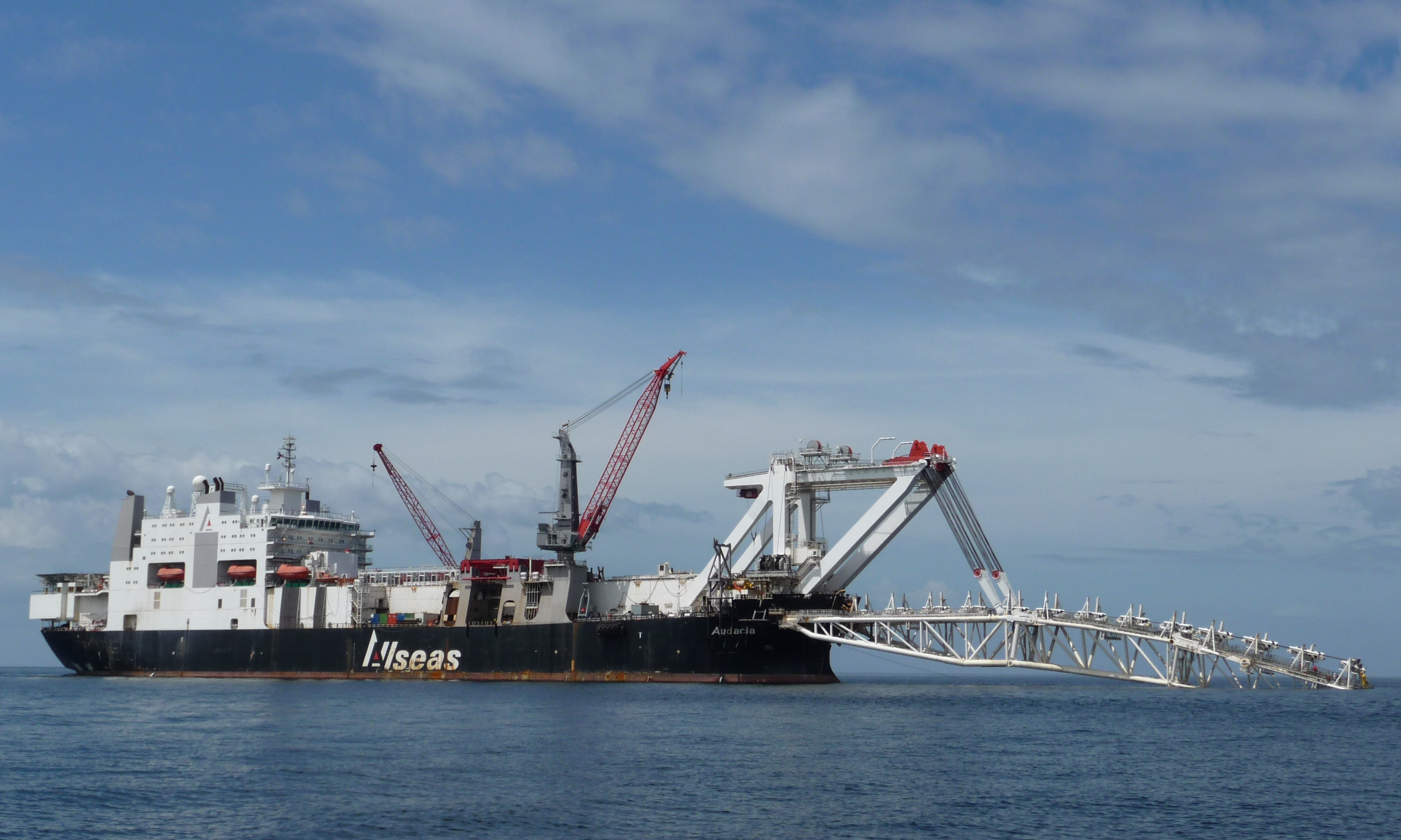 Pipelay ship Audacia off Trinidad